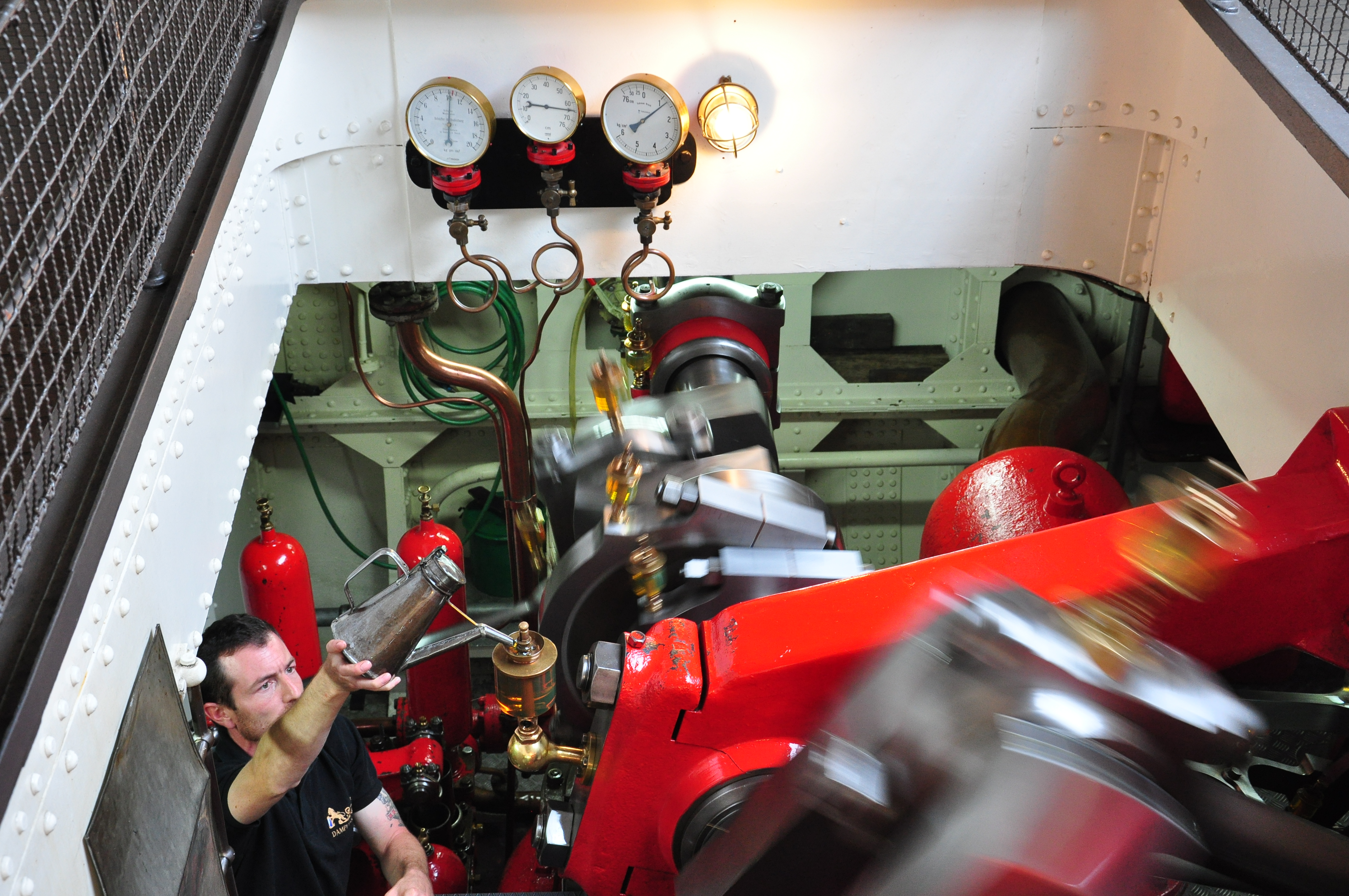 Zürichsee-Schiffahrtsgesellschaft (ZSG) paddle steamer Stadt Rapperswil on Zürichsee (Lake Zürich).